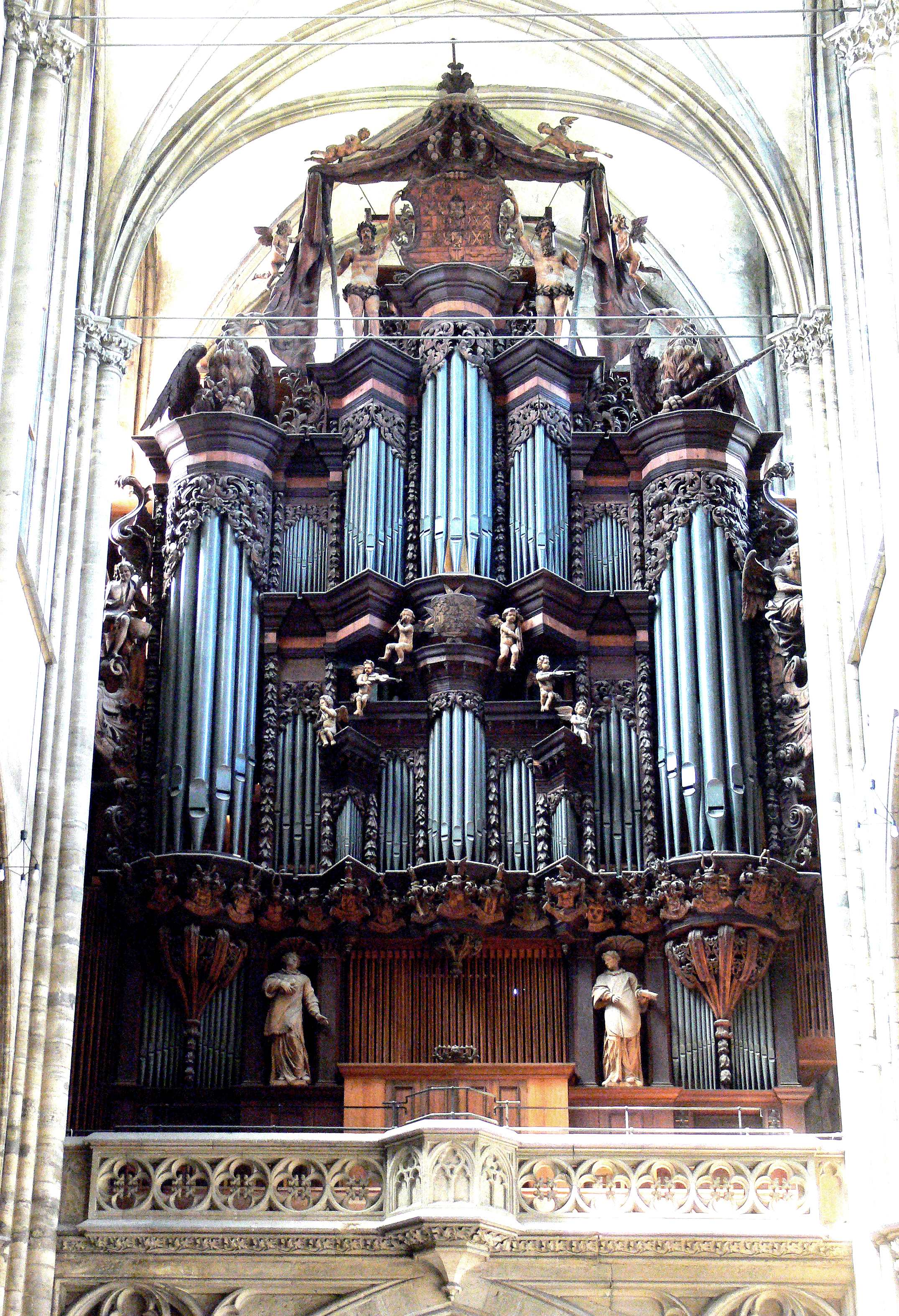 Organ of Halberstadt Cathedral (the name of this file is wrong!)